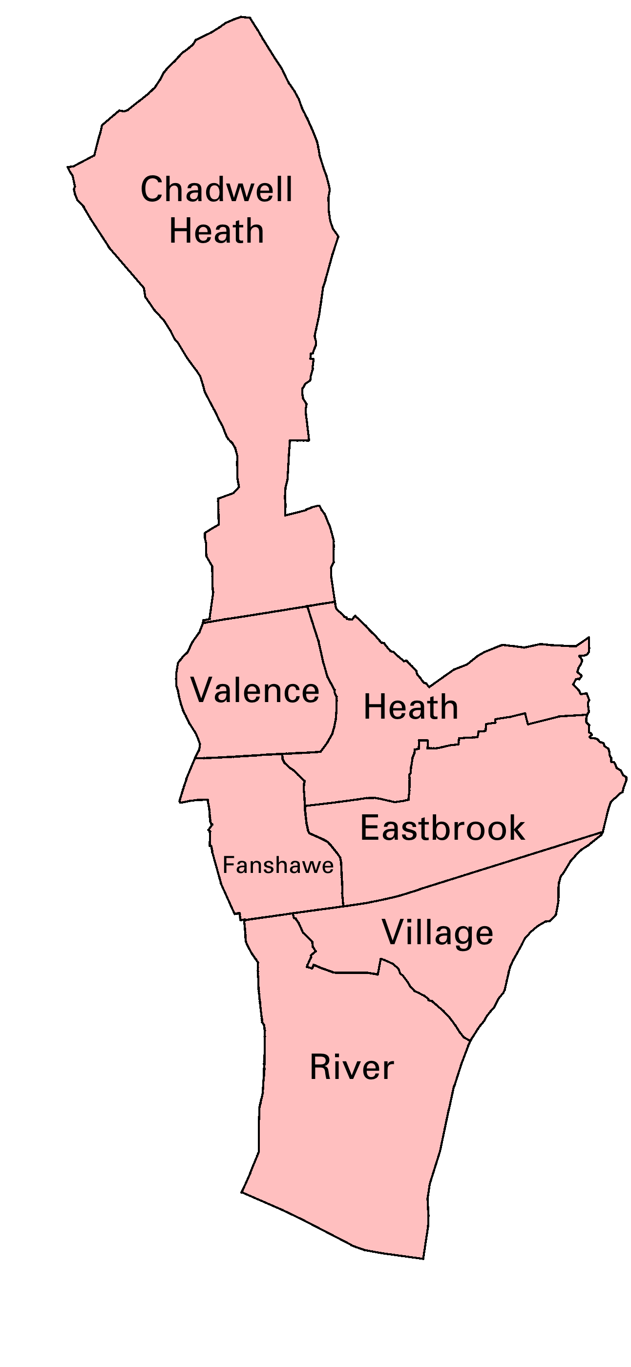 A locator map of the wards of the Municipal Borough of Dagenham 1938-65.